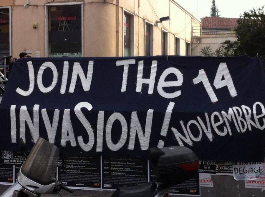 Call for the general strike in Rome